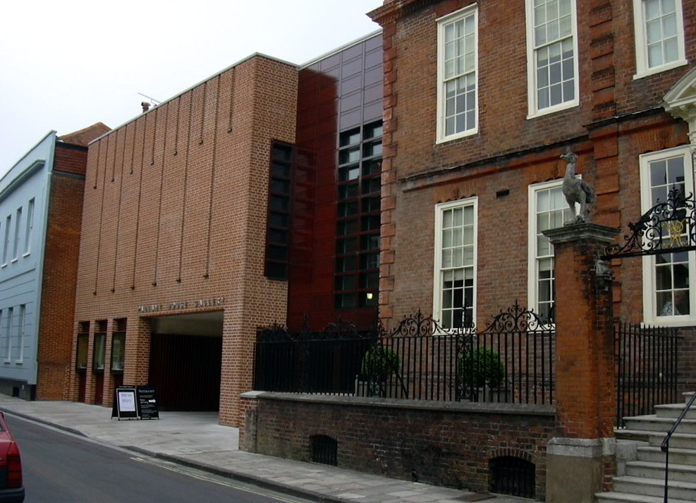 Pallant House Gallery (a gallery of modern British art) in Chichester, West Sussex, England